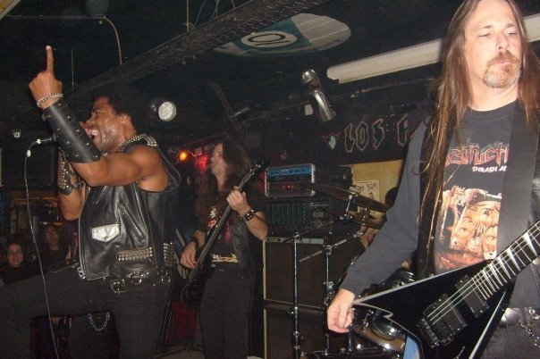 Hirax in Buenos Aires, Argentina. 09/09/09